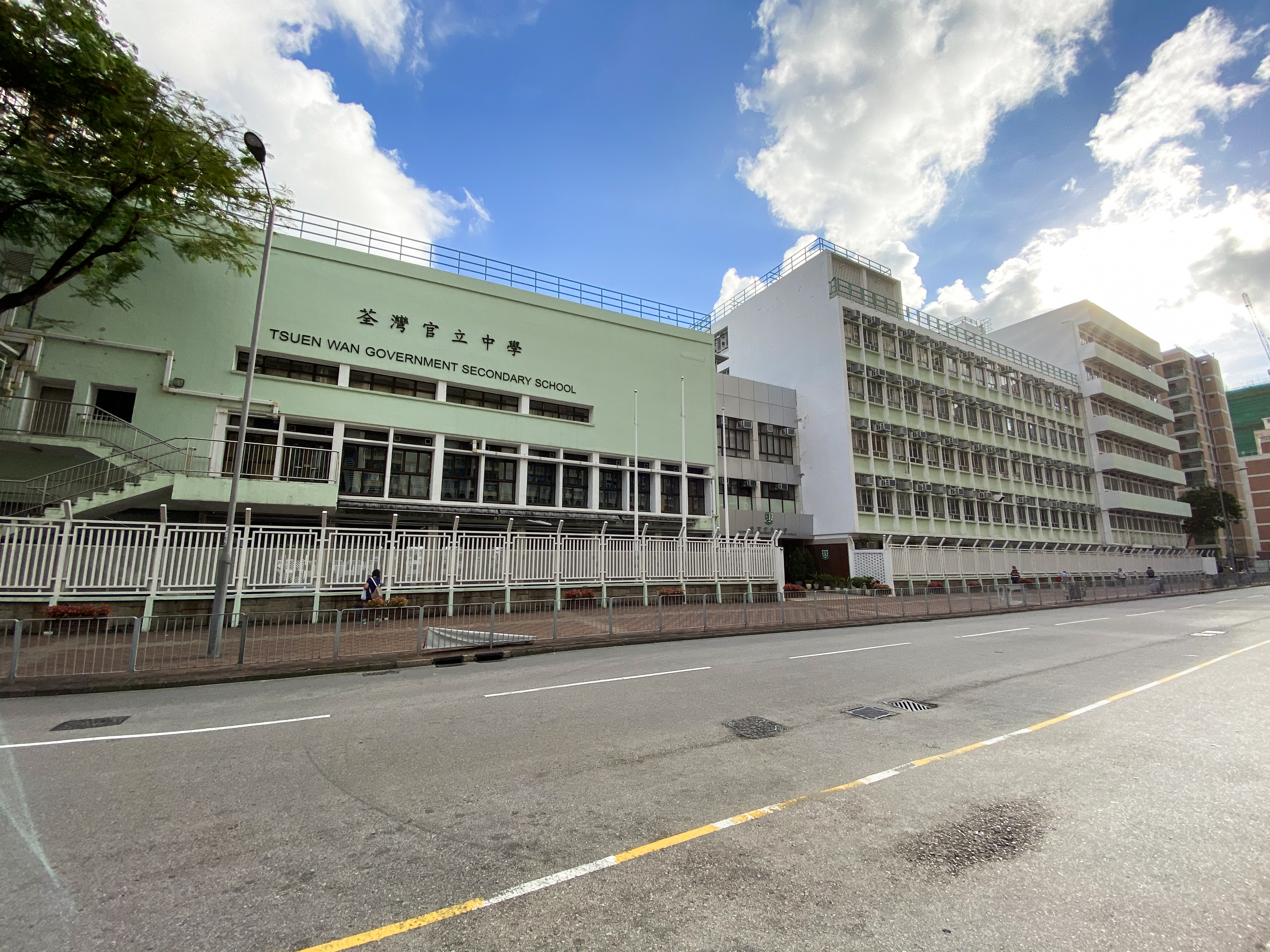 Tsuen Wan Government Secondary School